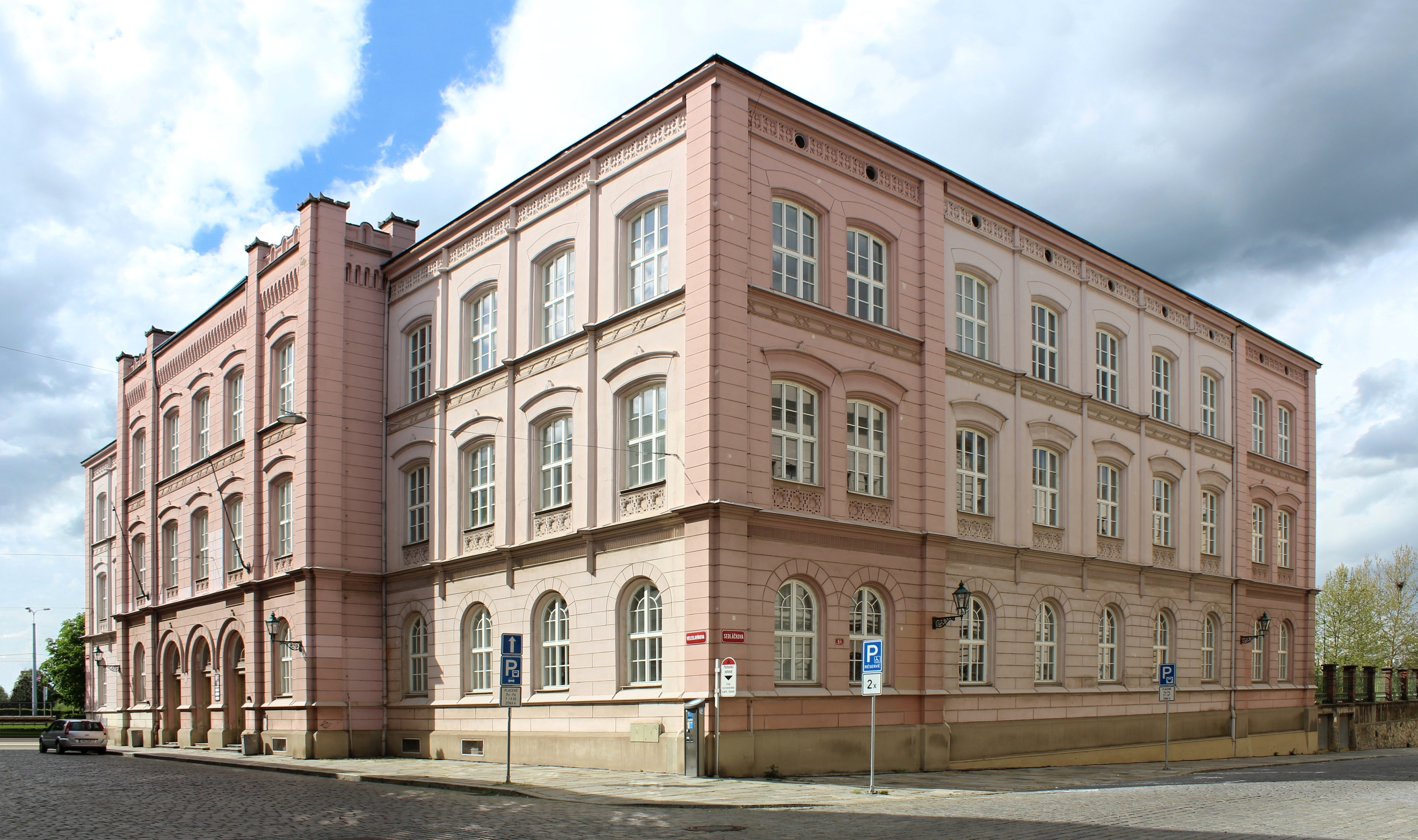 Building of Faculty of Law, University of West Bohemia, Pilsen